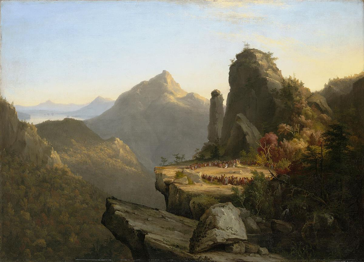 Scene from "The Last of the Mohicans": Cora Kneeling at the Feet of Tanemund [sic] 1827 (real name is Tamenund)